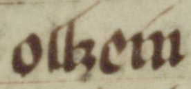 An excerpt from folio 60r of Oxford Jesus College MS 111. The excerpt concerns a certain Owain ap Dyfnwal, whose death is dated 1015 by this source.